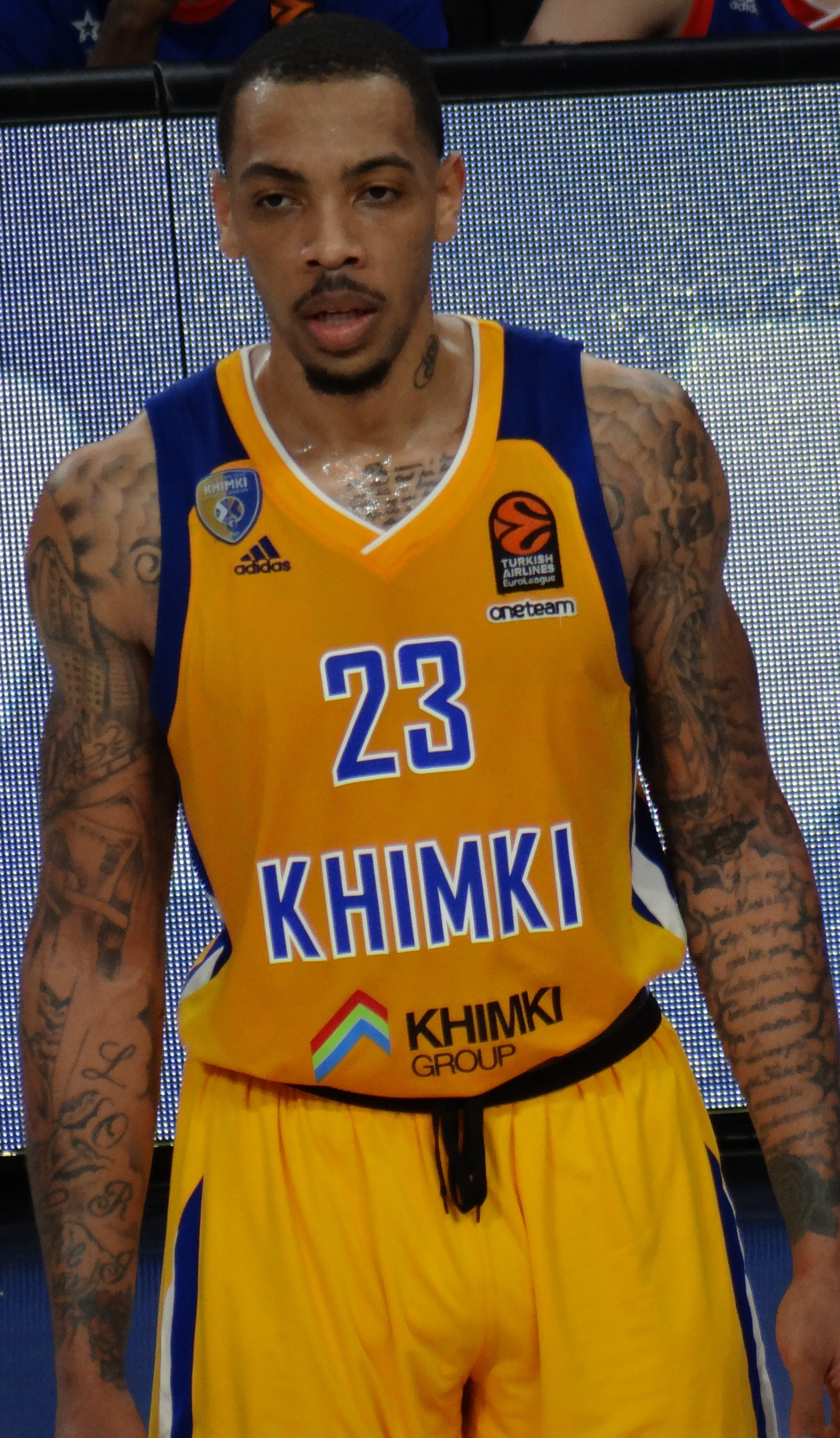 Malcolm Thomas (basketball, born 1988) 23 BC Khimki EuroLeague 20180321